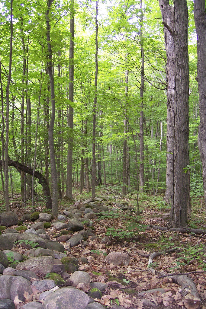 Remains of an old rock fence in the Sacred Grove, Palmyra, New York. It was inside this grove that Joseph Smith, Jr. claimed to have his First Vision, that would later lead to the establishment of The Church of Jesus Christ of Latter-day Saints